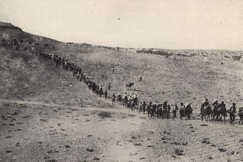 A caravan of 5,000 Christian refugees from Kharput (now Elazig) to Trebizond (now Trabzon). Story of Near East Relief states that it was a caravan of children from orphanages evacuated by Near East Relief. Author Tasos Kastopoulos states in Πόλεμος και Εθνοκάθαρση: Η ξεχασμένη πλευρά μιας δεκαετούς εθνικής εξόρμησης (1912-1922) ("War and Ethnic Cleansing: The forgotten side of a ten-year national campaign (1912-1922)") that the photo depicts Greek refugees, not Armenian ones, and that usage of the photo to represent the Armenian genocide and/or labor battalions is inaccurate.